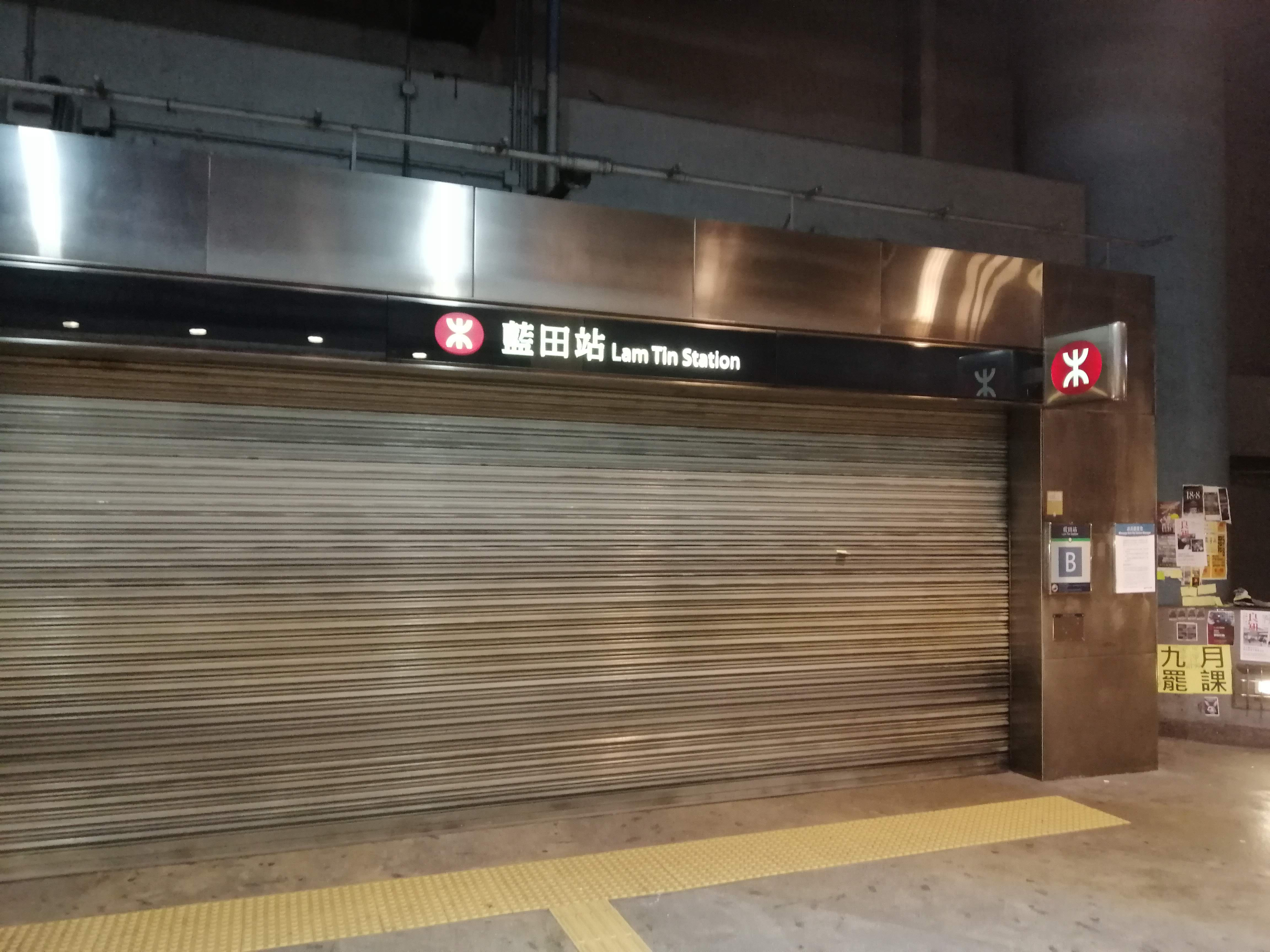 Lam Tin Station closed